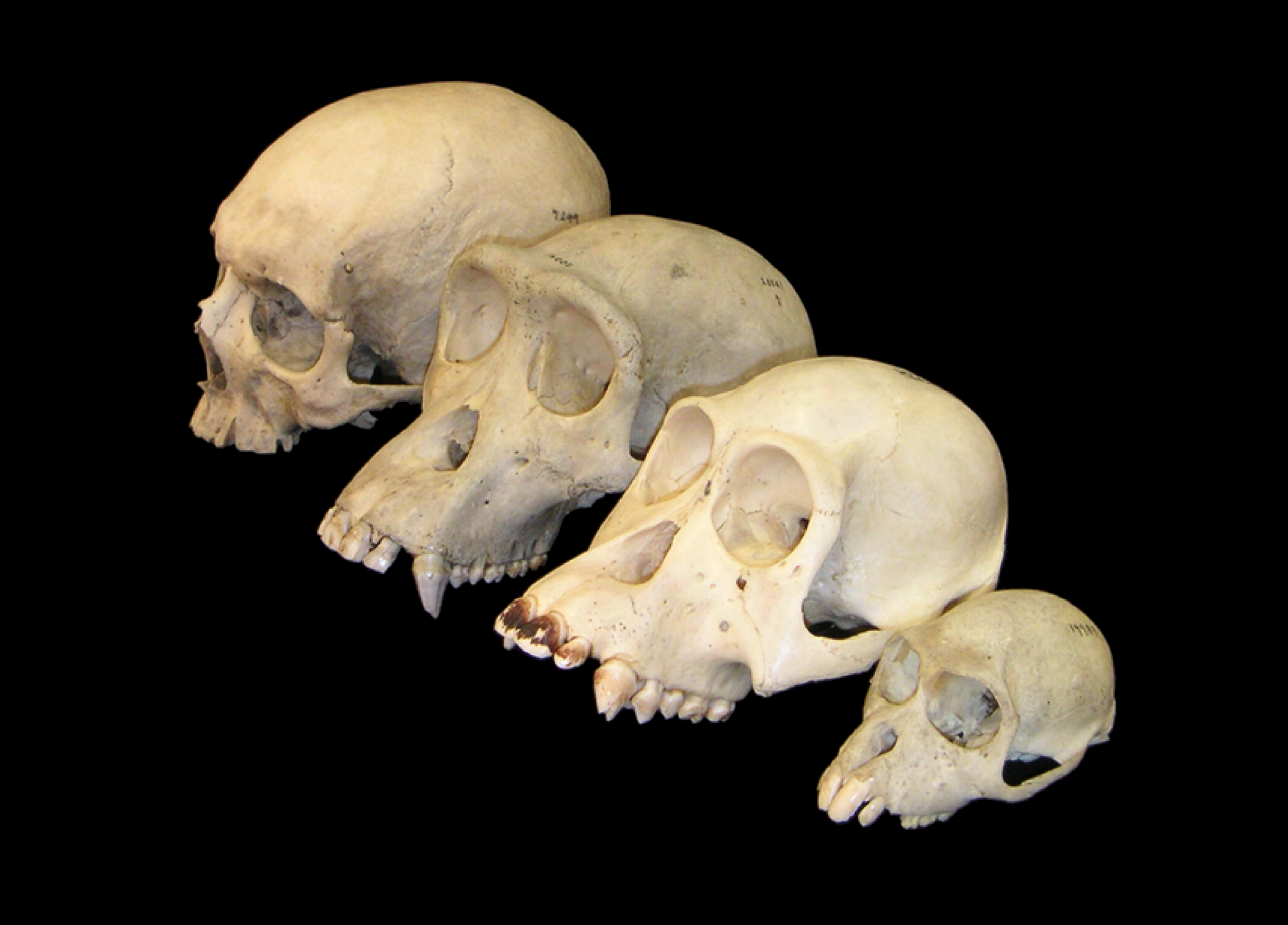 Primate skulls provided courtesy of the Museum of Comparative Zoology, Harvard University. From left to right with average brain weigth: Human (1350g), Chimpanzee (400g), Orangutan (400g) and Macaque (100g).